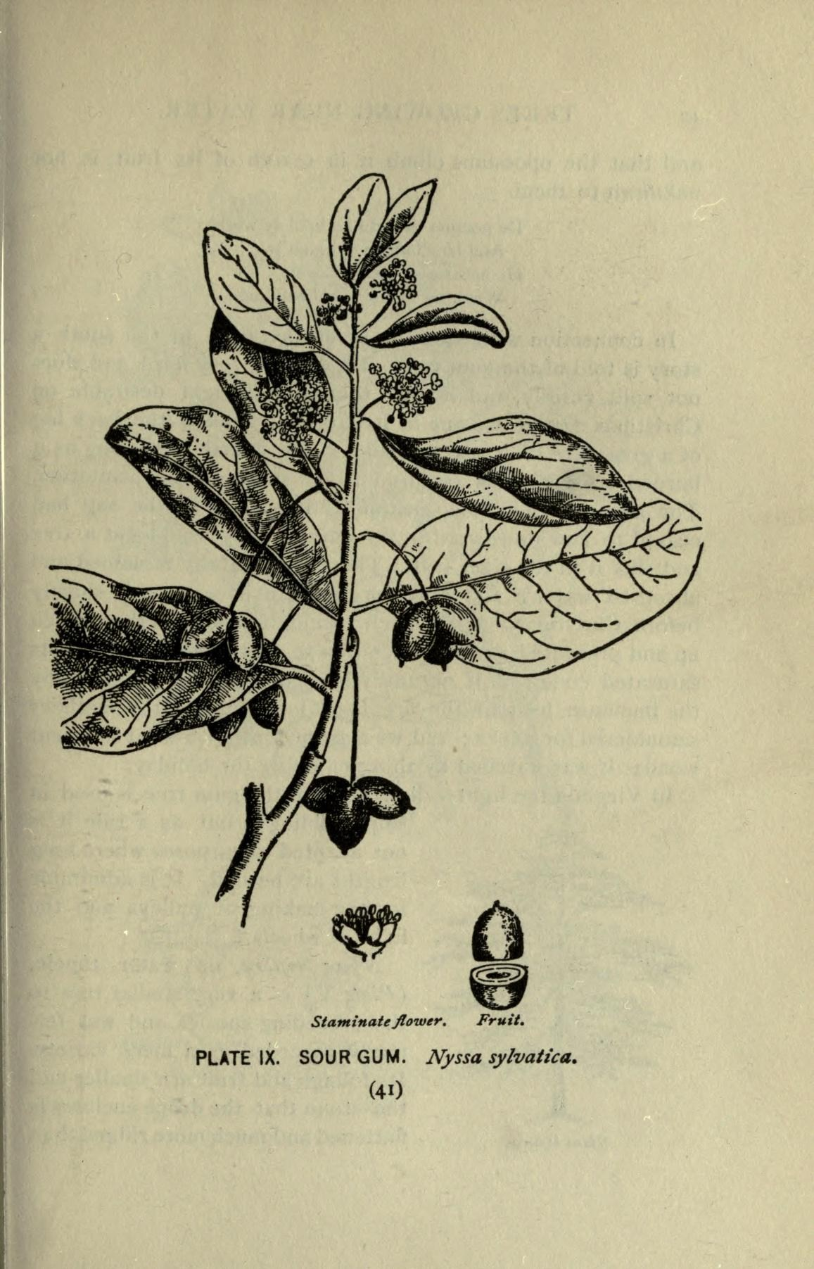 Staminate flower. Fruit. PLATE IX. SOU R G U M . JVyssa sylvatica. (41)